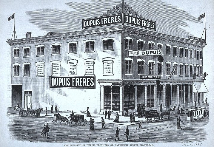 Print, The Building of Dupuis Brothers, St. Catherine Street, Montreal, Jules Marion, 1877, Ink on newsprint - Photolithography - 25 x 27.9 cm